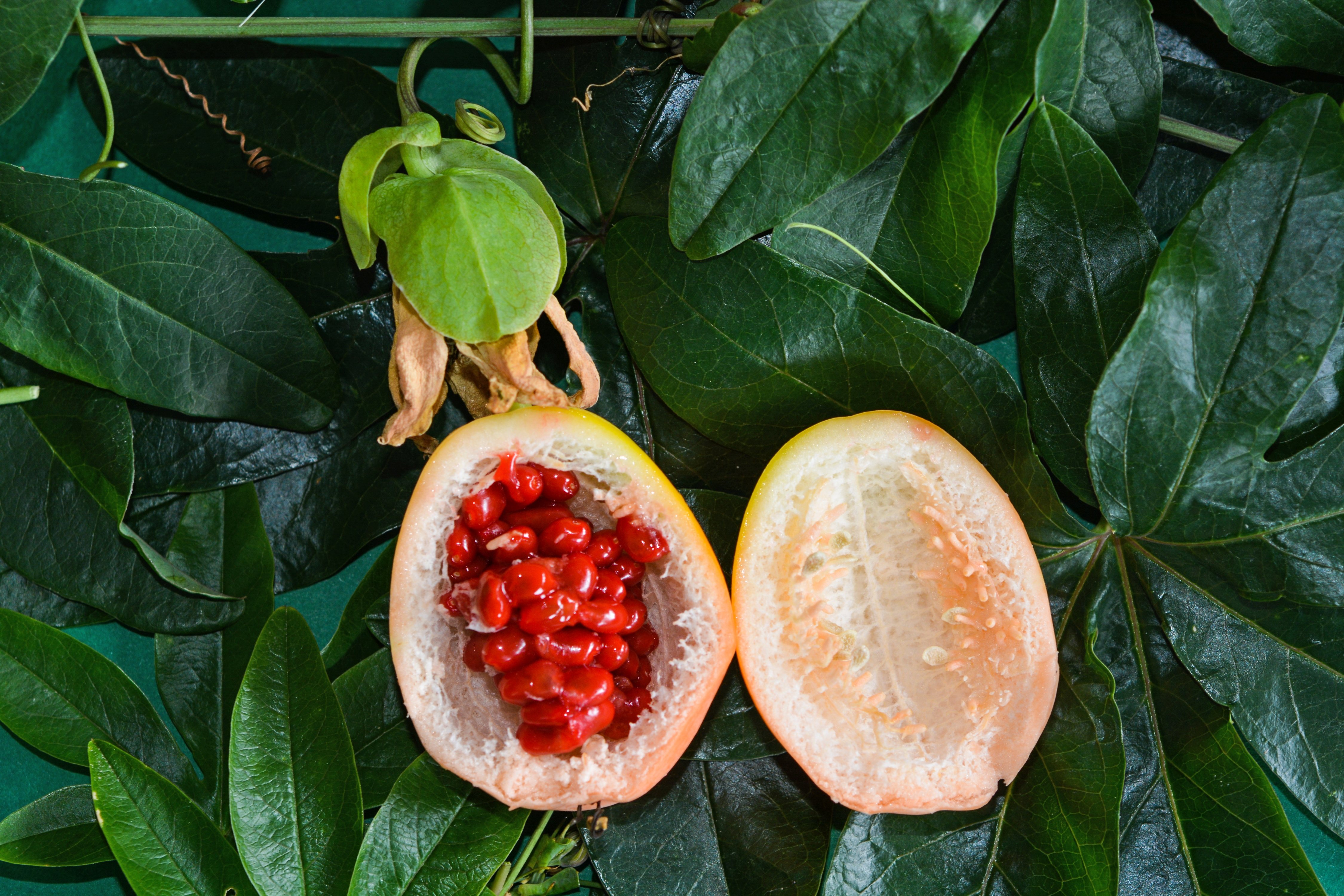 Passion Flower, fruit opened